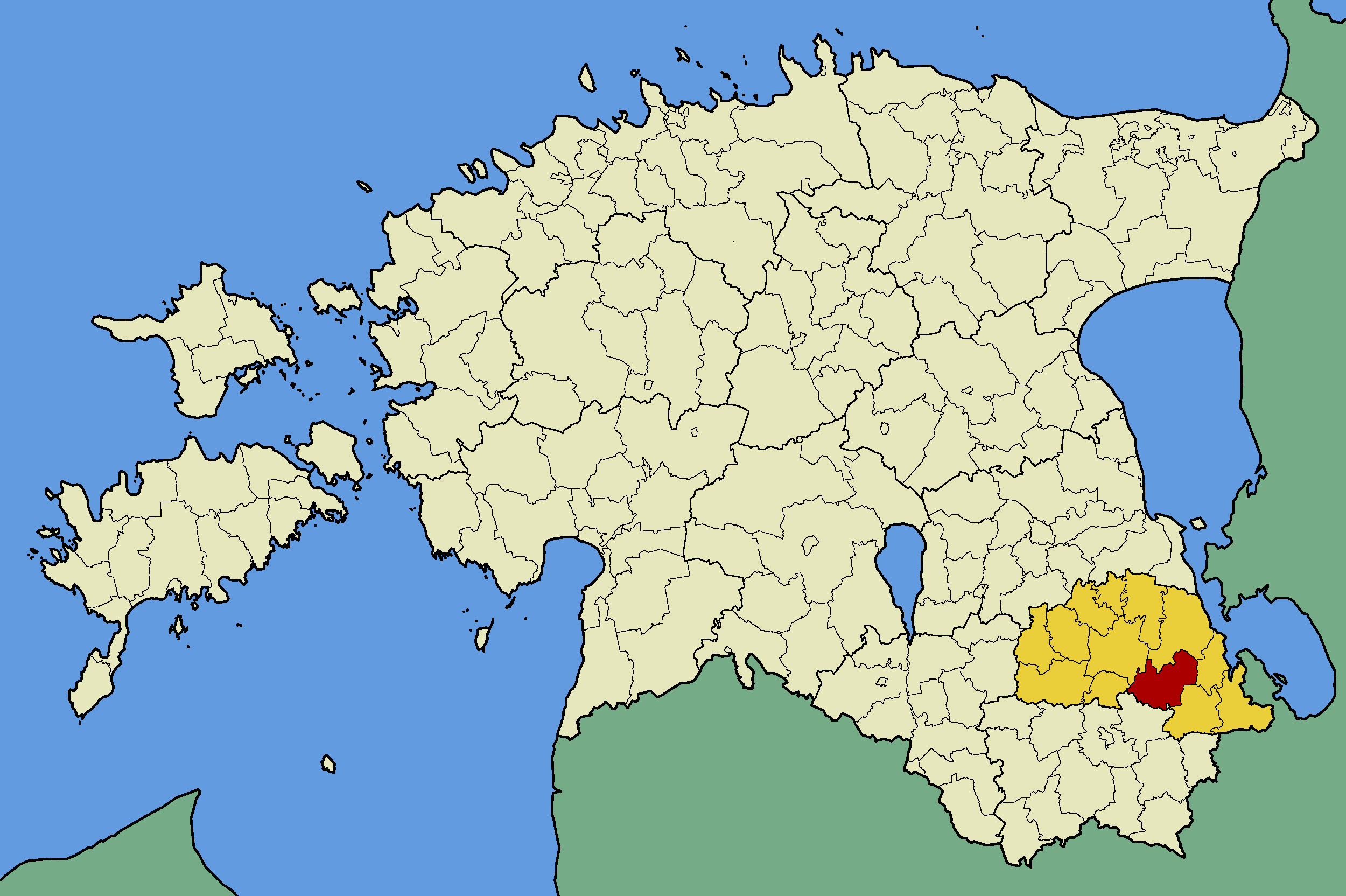 Map of Estonia with borders of municipalities (parishes). Põlva county and Veriora municipality emphasized.